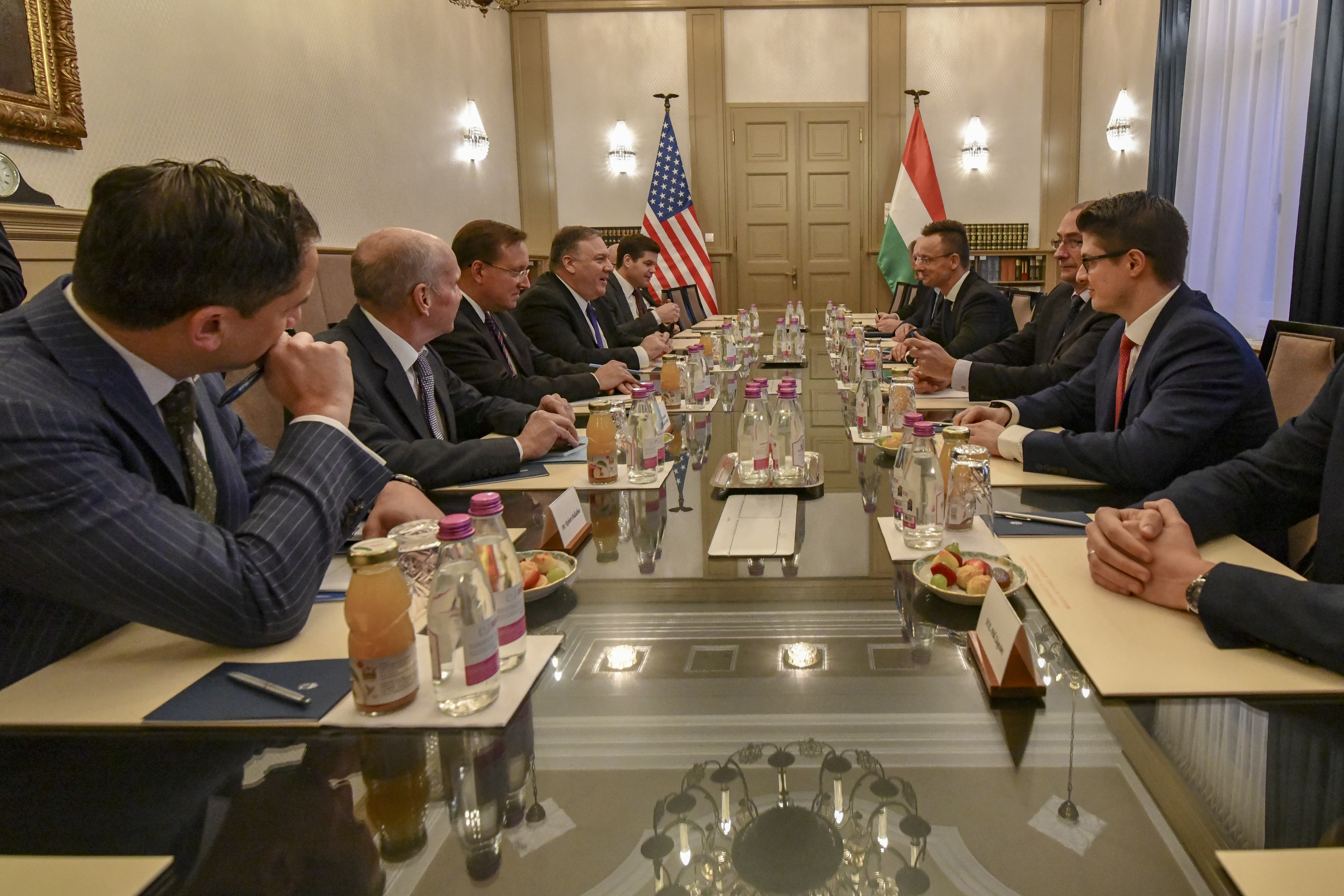 U.S. Secretary of State Michael R. Pompeo participates in a bilateral meeting with Hungarian Foreign Minister Peter Szijjarto in Budapest, Hungary on February 11, 2019. [State Department photo by Ron Przysucha/ Public Domain]